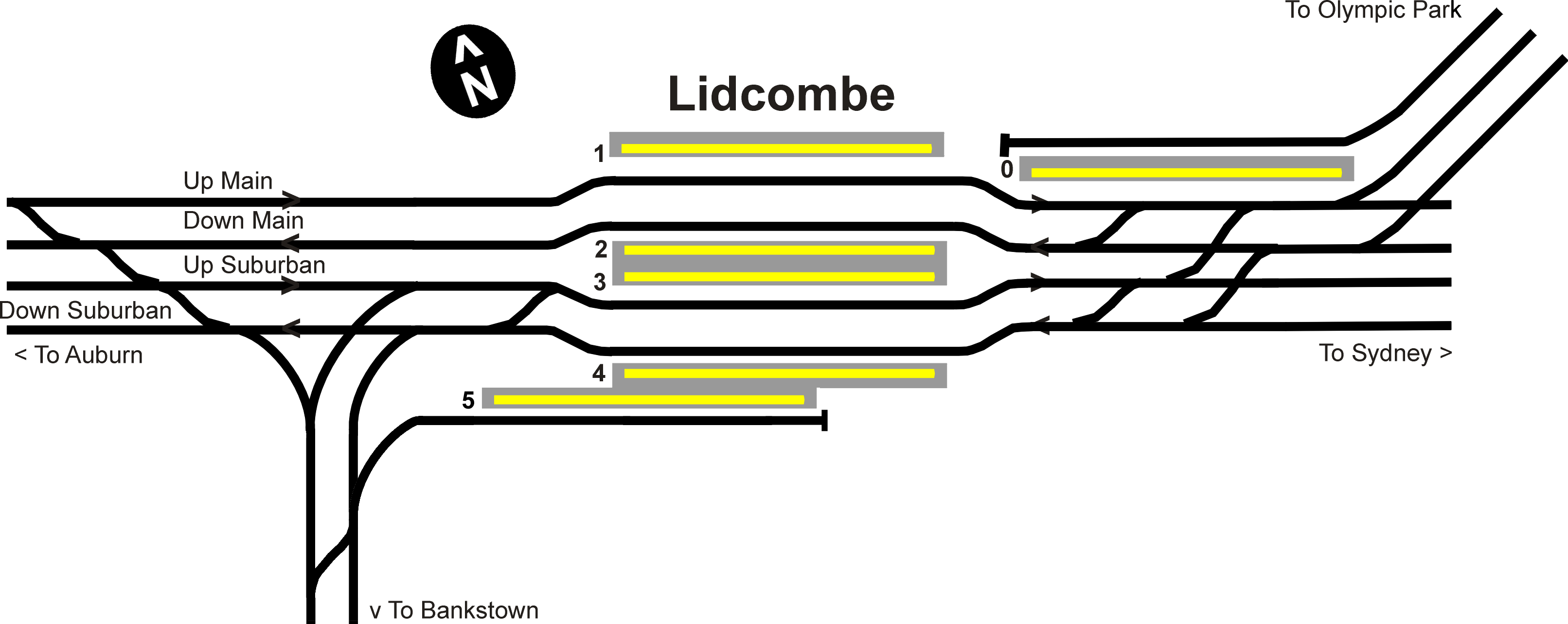 Track layout at Lidcombe railway station, Sydney